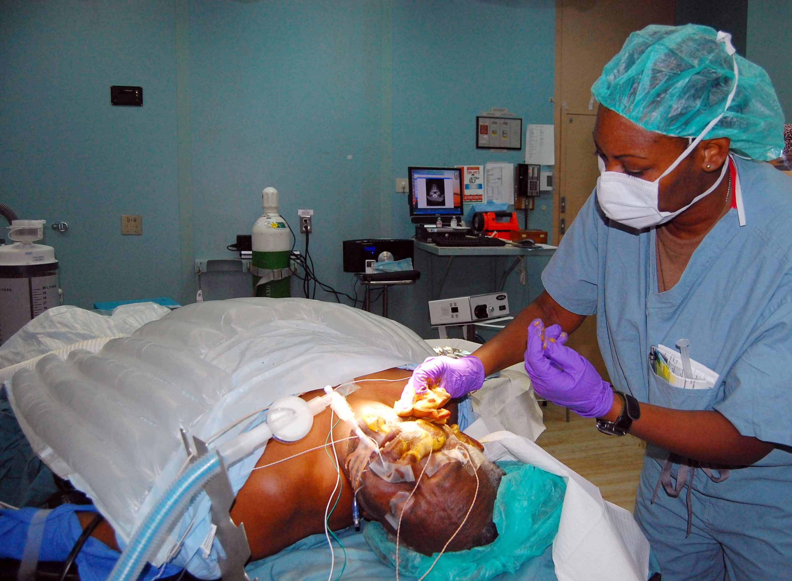 ST JOHN'S, Antigua (May 11, 2009) Navy Lt. j.g. Martha Mays, a nurse embarked aboard the Military Sealift Command hospital ship USNS Comfort (T-AH 20), cleans and prepares a patients skin for surgery during a Continuing Promise 2009 medical community service project. Comfort is on a four-month humanitarian and civic assistance mission to seven countries in Latin America and the Caribbean called Continuing Promise 2009. (U.S. Air Force photo by Airman 1st Class Ashley Garcia/Released)